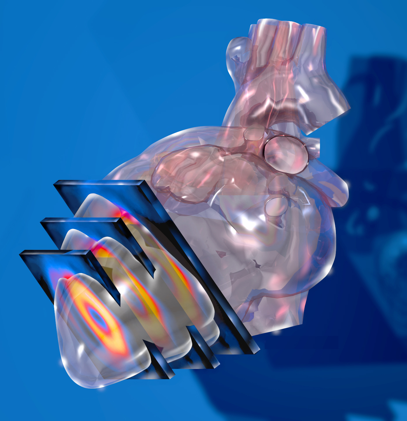 SPECT nuclear imaging of the heart, short axis views